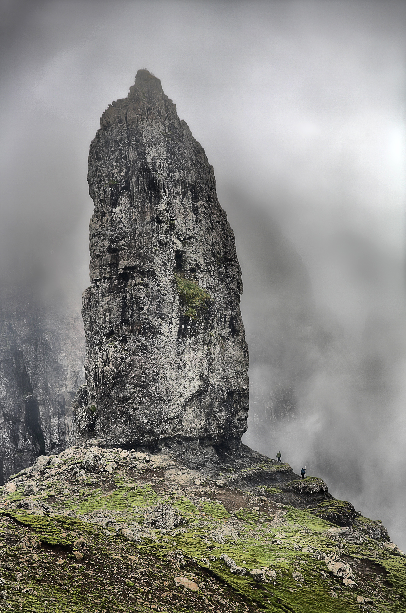 Old man of Storr, Skye, Scotland